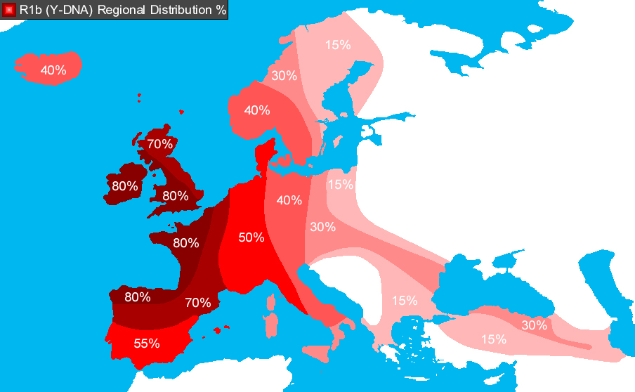 R1b Distribution